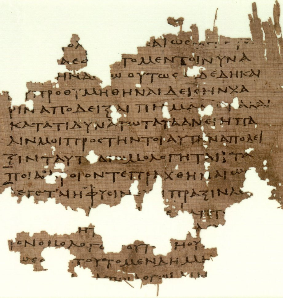 Parts of P.Oxy. LII 3679, 3rd century, containing fragments of Plato's Republic.